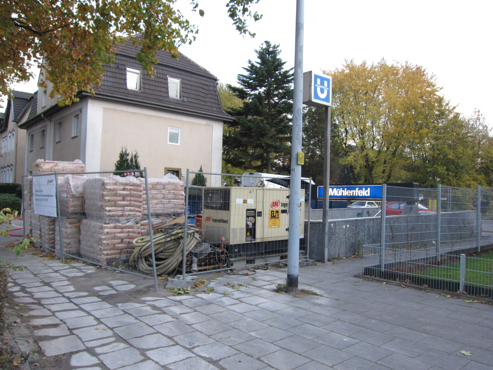 The underground station Mühlenfeld which is menacing to break down by an illegal Flöz created around 300 years ago